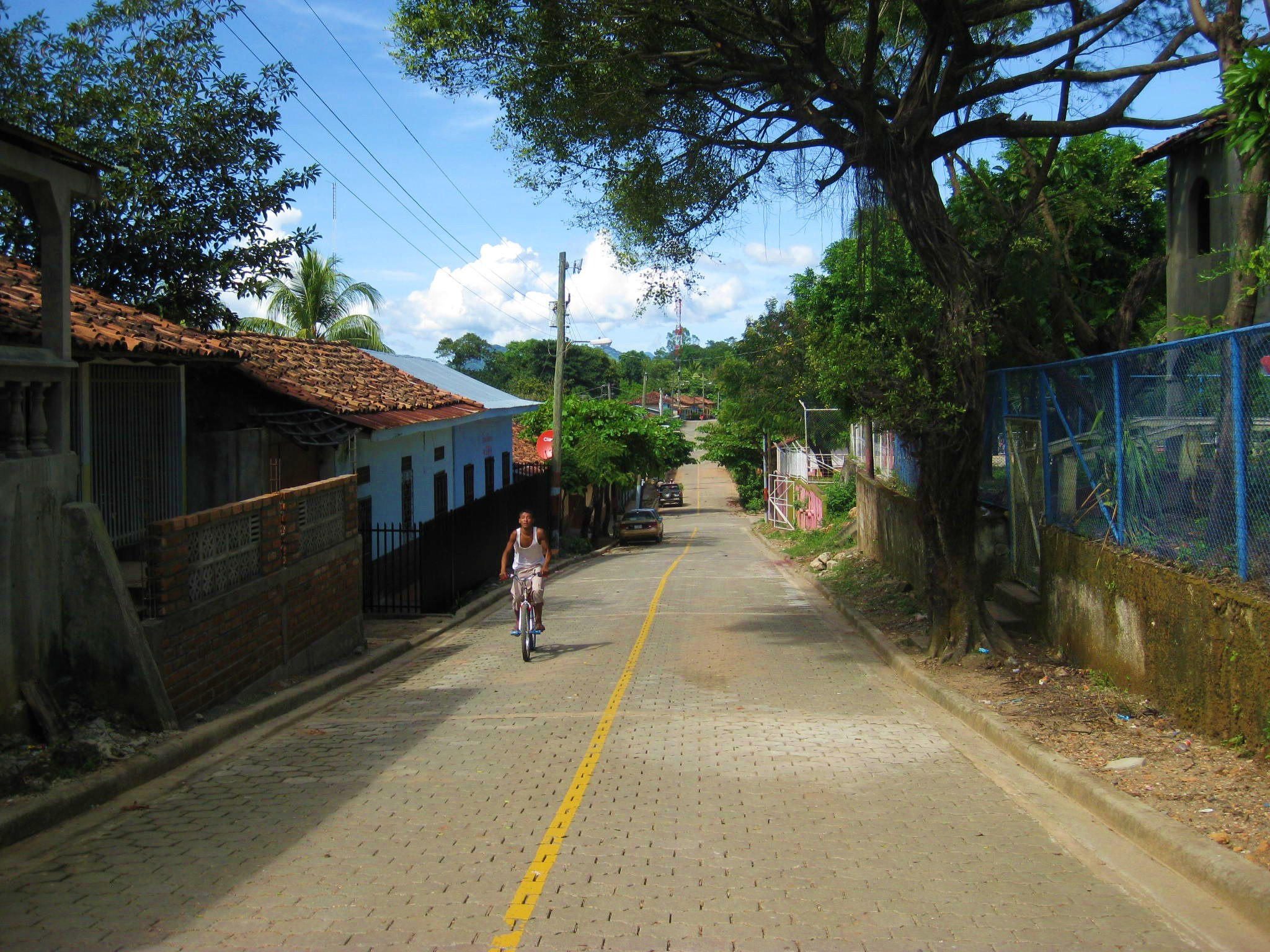 Municipality of San Juan de Cinco Pinos, Chinandega Department, Nicaragua.